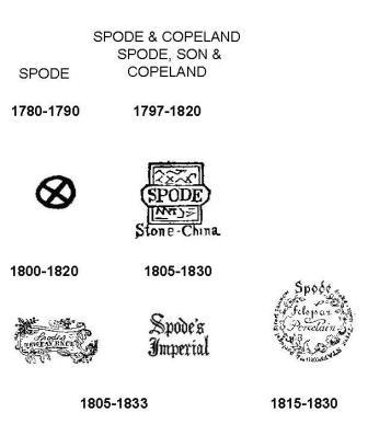 copeland spode mark